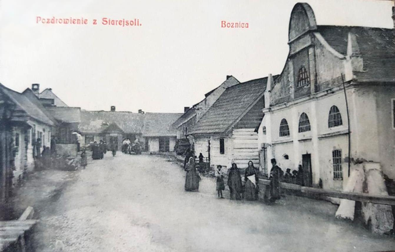 Great Synagogue in Stara Sil.